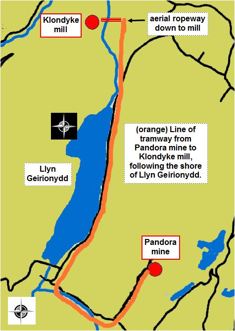 Diagram showing location of Pandora Mine and Klondyke Mill